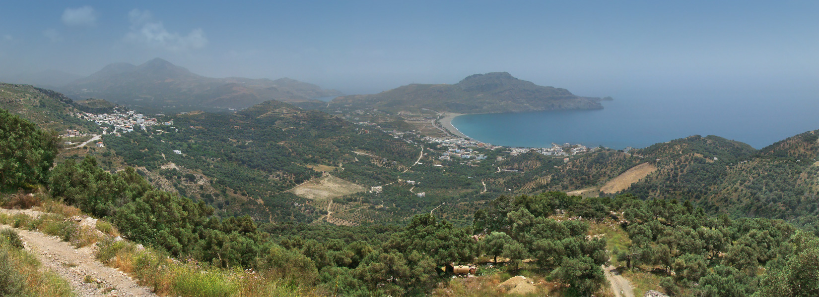 Myrthios (left) and Plakias (right), Crete, Greece.